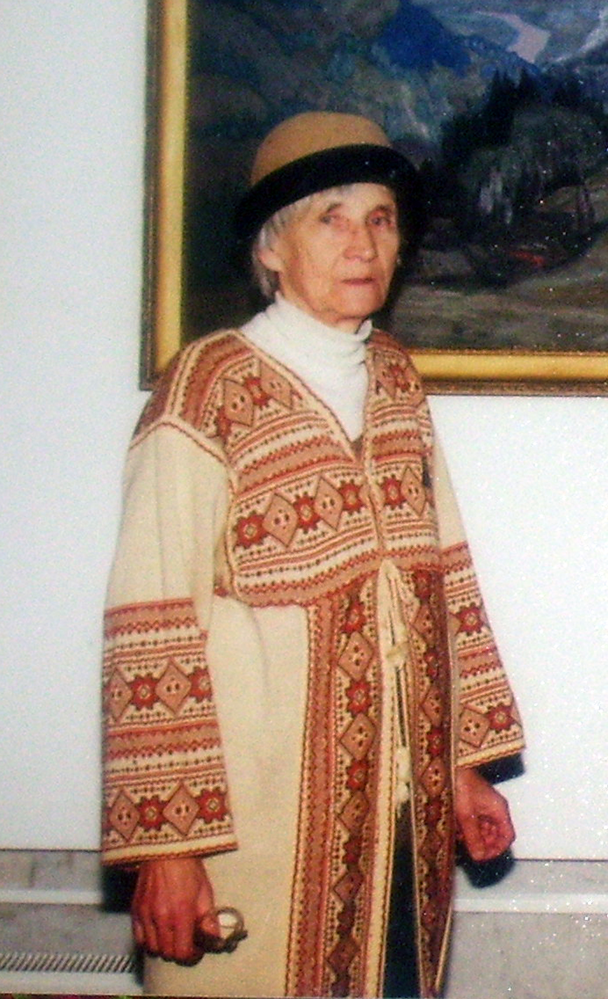 Zubchenko Galyna Olexandrivna.